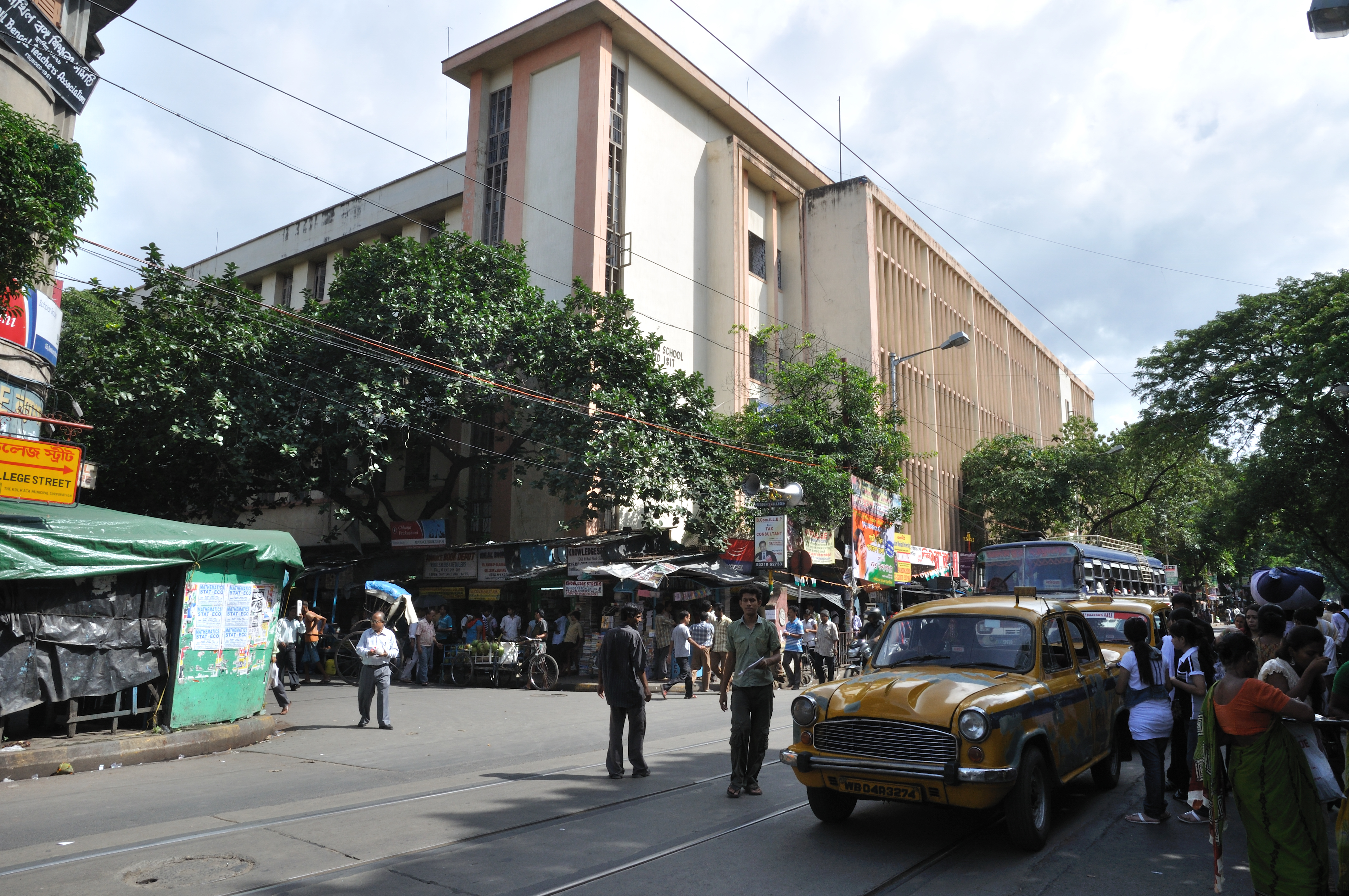 Hindu School is a school in Kolkata (Calcutta), India. It is located on College Street. It was established in 1817 by Raja Rammohan Roy, David Hare, Radhakanta Deb and other educationists.